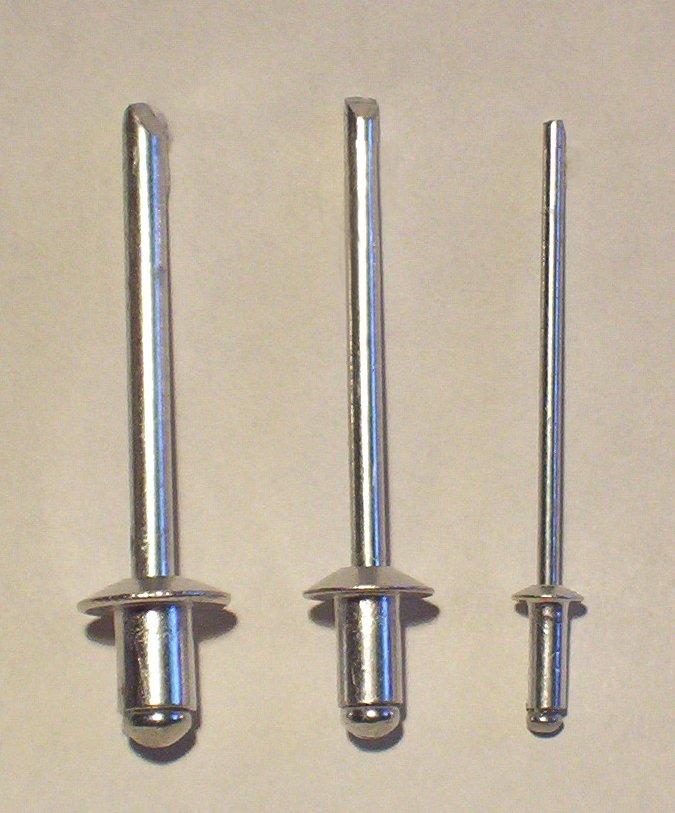 Three blind rivets. From left to right: 1/8", 3/32", 1/16"